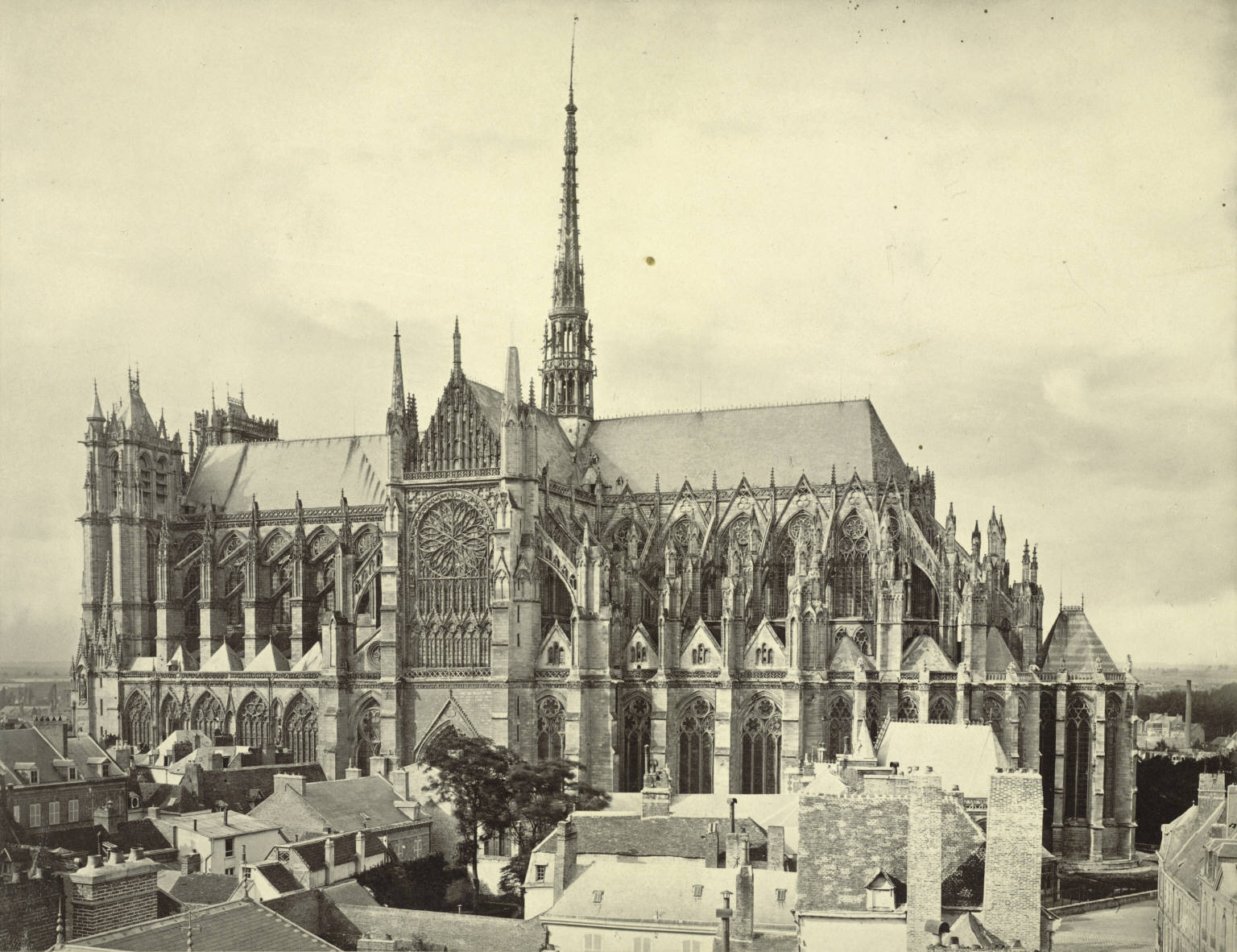 Collection: A. D. White Architectural Photographs, Cornell University Library Accession Number: 15/5/3090.01268 Title: Amiens Cathedral, South Side Building Date: 1220-1270 Photograph date: ca. 1865-ca. 1895 Location: Europe: France; Amiens Materials: albumen print Image: 6.2992 x 8.2677 in.; 16 x 21 cm Style: Rayonnant Provenance: Gift of Andrew Dickson White Persistent URI: There are no known U.S. copyright restrictions on this image. The digital file is owned by the Cornell University Library which is making it freely available with the request that, when possible, the Library be credited as its source.